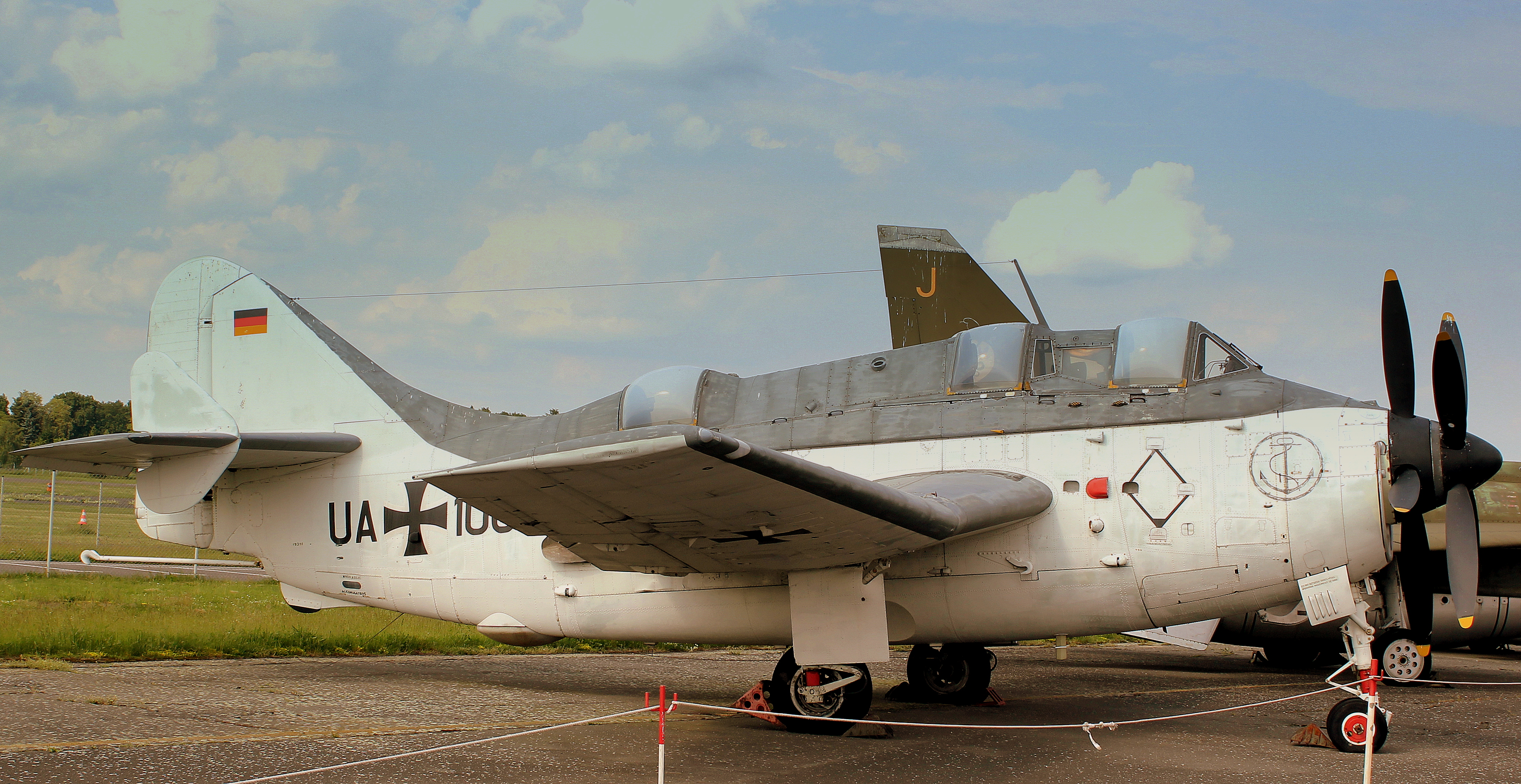 LUFT MARINE FAIRY GANNET AT THE LUFTWAFFEN MUSEUM RAF GATOW BERLIN GERMANY JUNE 2013